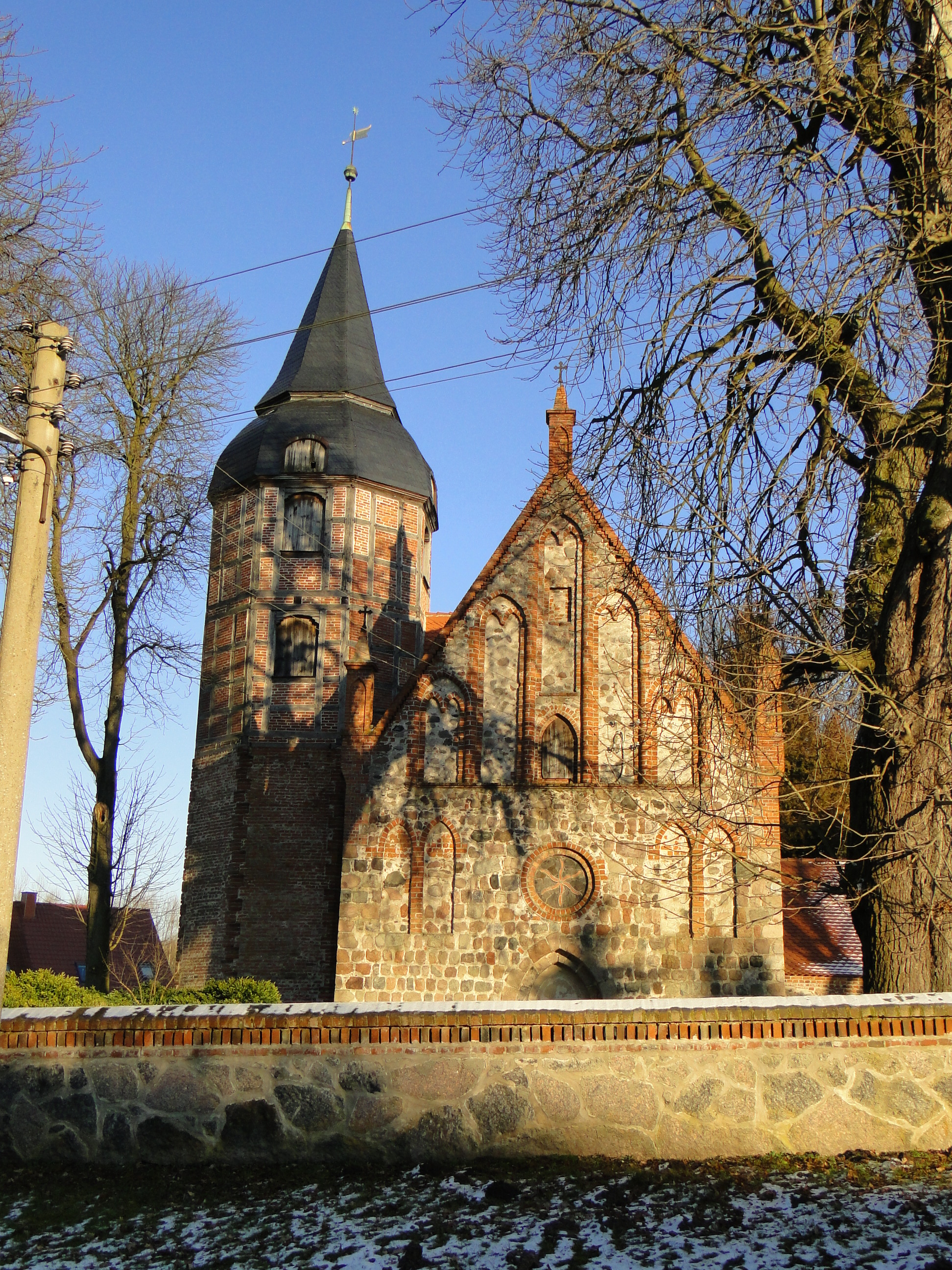 Church in Galenbeck, district Mecklenburg-Strelitz, Mecklenburg-Vorpommern, Germany